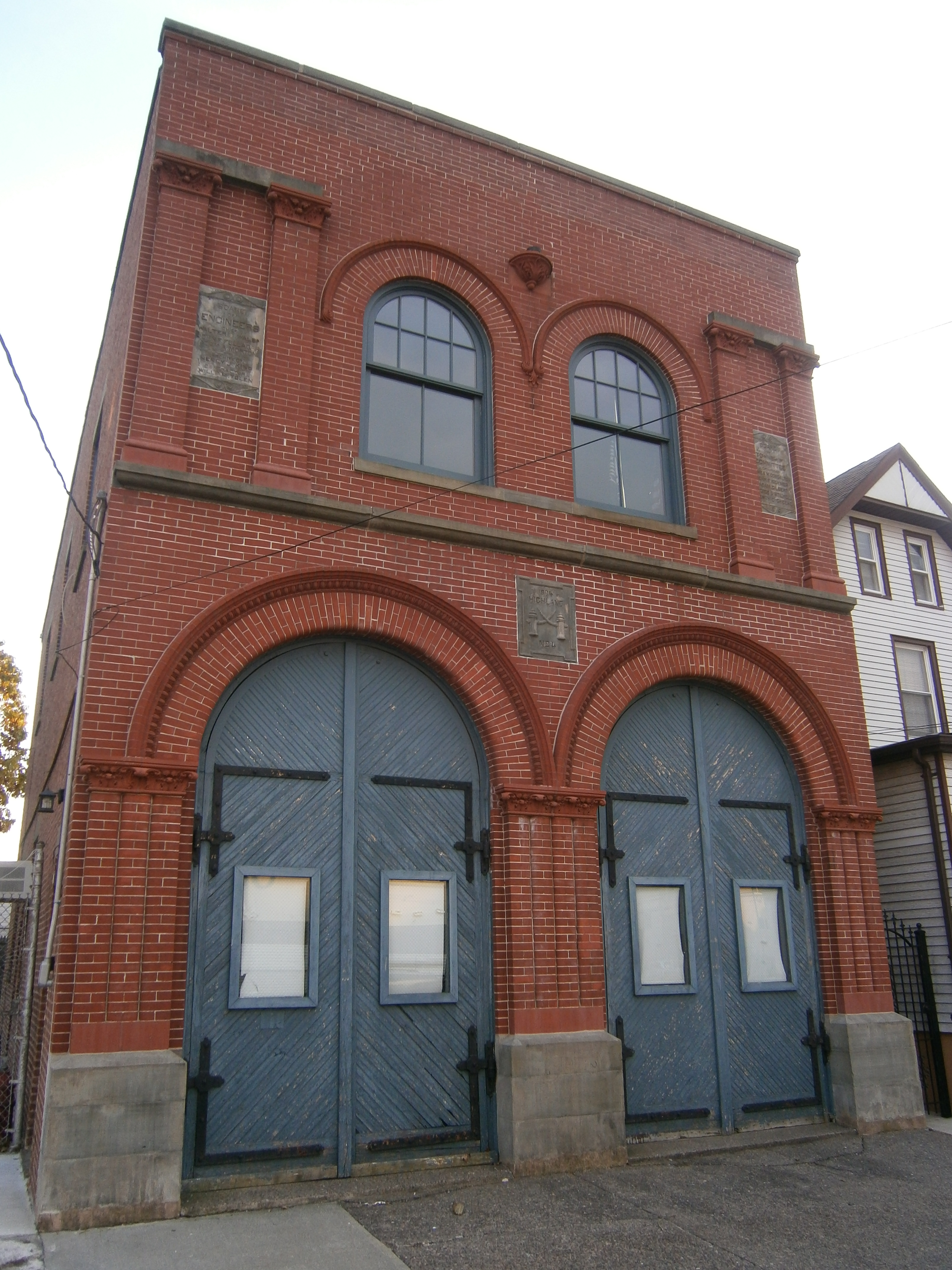 NRHP fire station constructed in 1894 to be used by Highland Hose No. 4. in Kearny, New Jersey